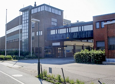 Former premises of Dresser Wayne (until 1970 Ljungmans verkstäder) on Limhamnsvägen in Malmö, Sweden. The company had its Swedish headquarters and manufacturing here 1938-2010.